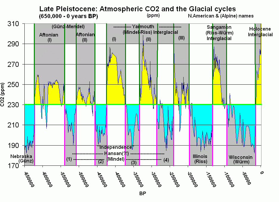 Ice Core data for Atmospheric CO2 related to the glacial cycles This graph shows the newest Ice Core data for Atmospheric CO2 from air bubbles in the ice. I tried to connect it to the glacial cycles by marking 230 ppm as a transition level and colored "glacial periods" blue and interglacial periods yellow. There's a clear 80,000-110,000 period of repeating glacier even if they vary in quality. Human deforestation and burning of fossil fuel has raised atmospheric CO2 to over 380 ppm in the last century, well above pre-industrialized levels, and "off the scale" of this graph top.